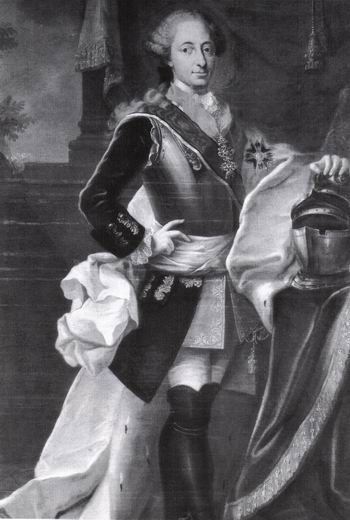 Portrait of Maximilian III Joseph, Elector of Bavaria (1727-1777)